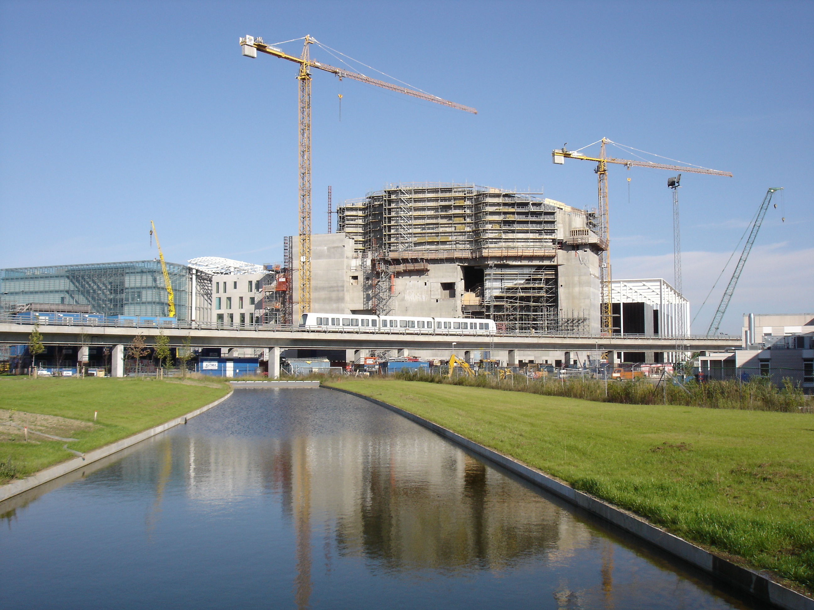 DR Byen - Building activity - The new concert hall